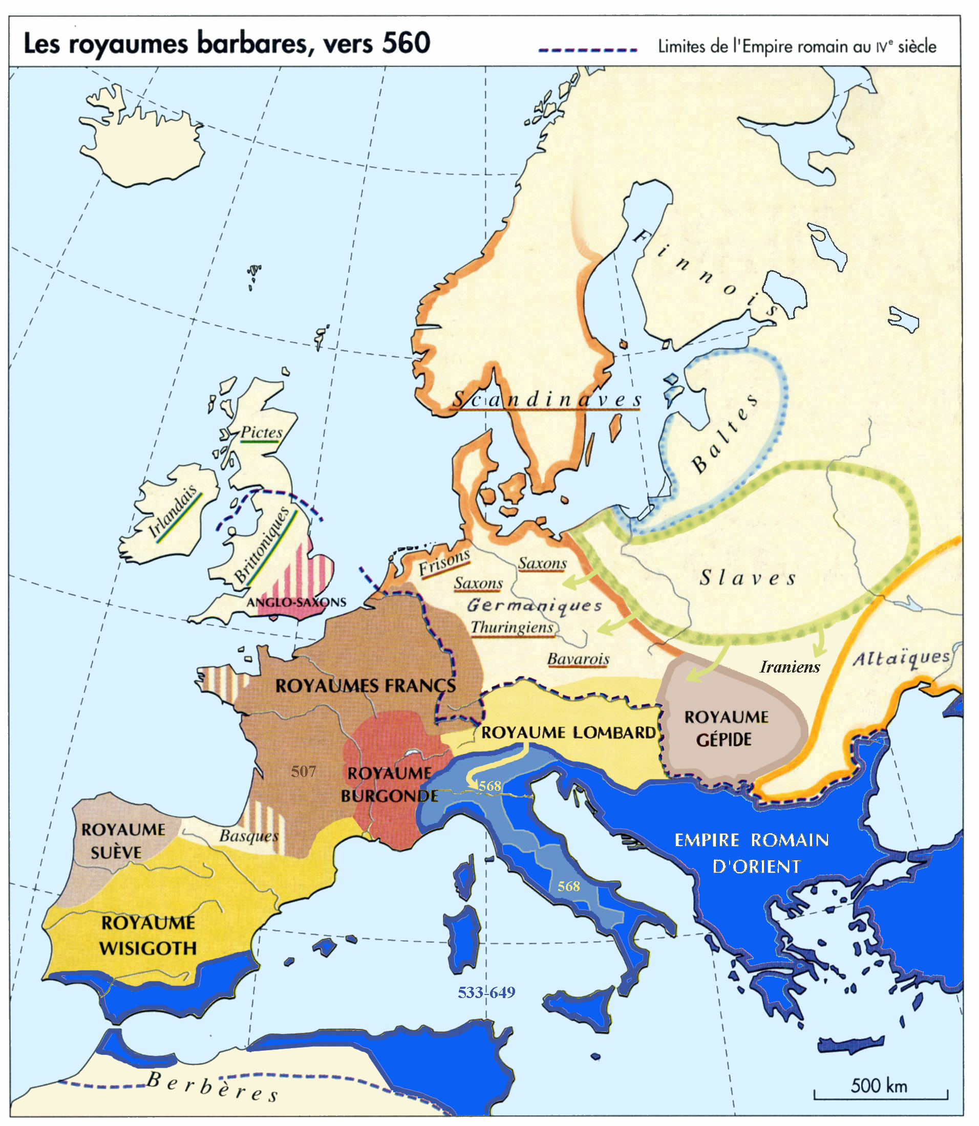 Historical map of Europe, french language, year 560